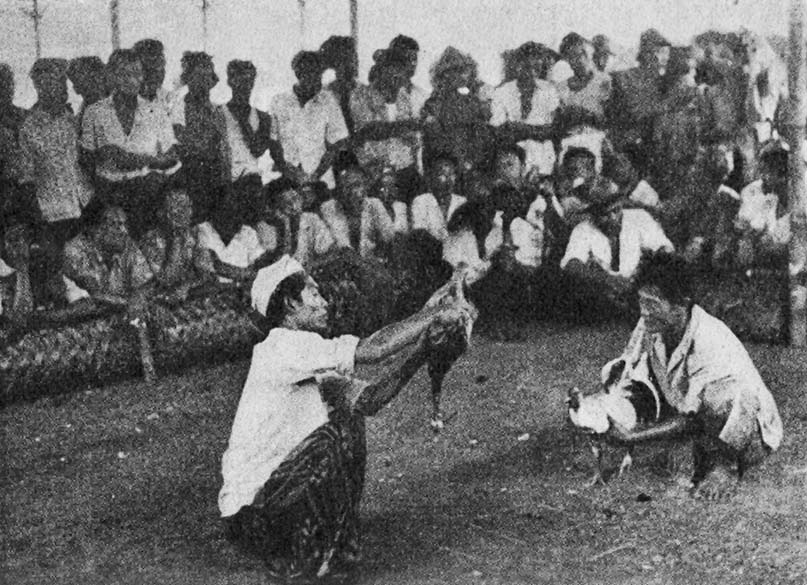 Cockfighting